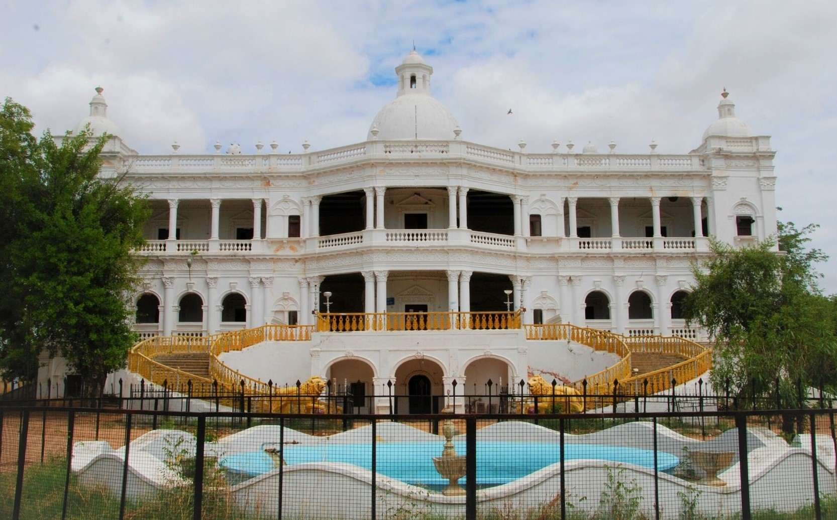 A new photo of wanaparthi Palace will be attached